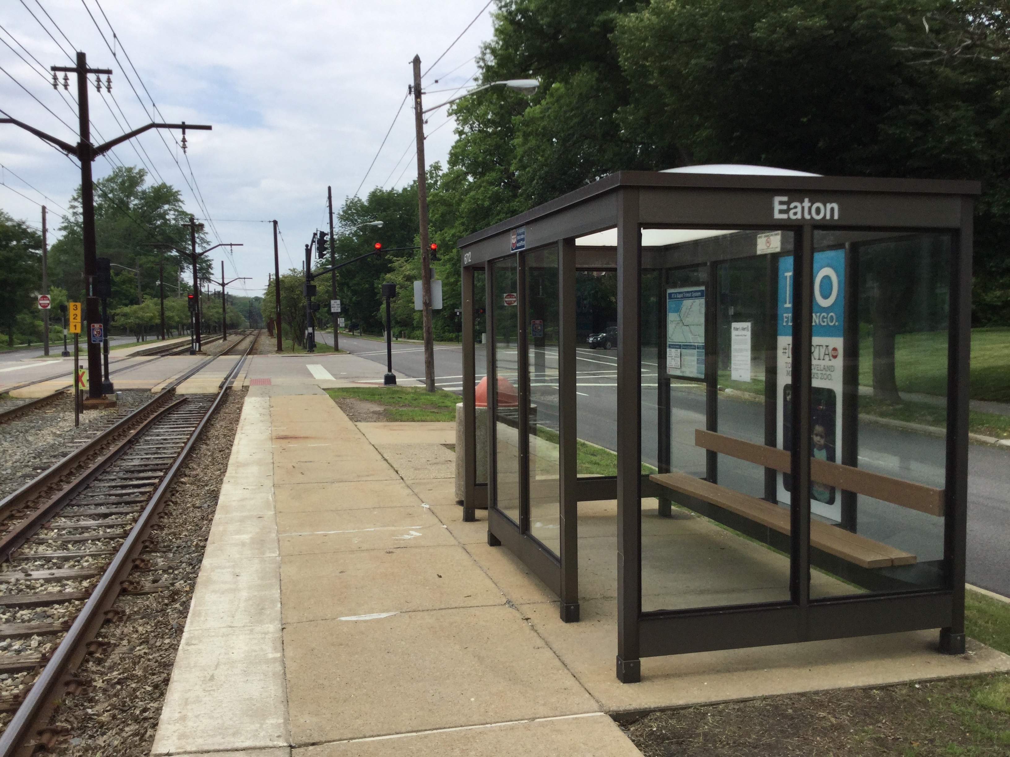 RTA station